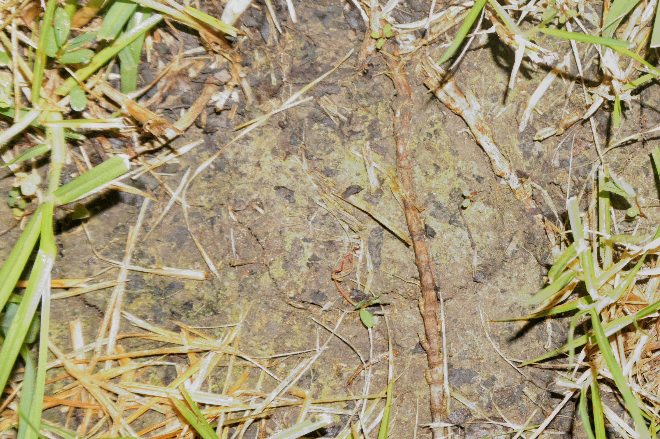 soil crust